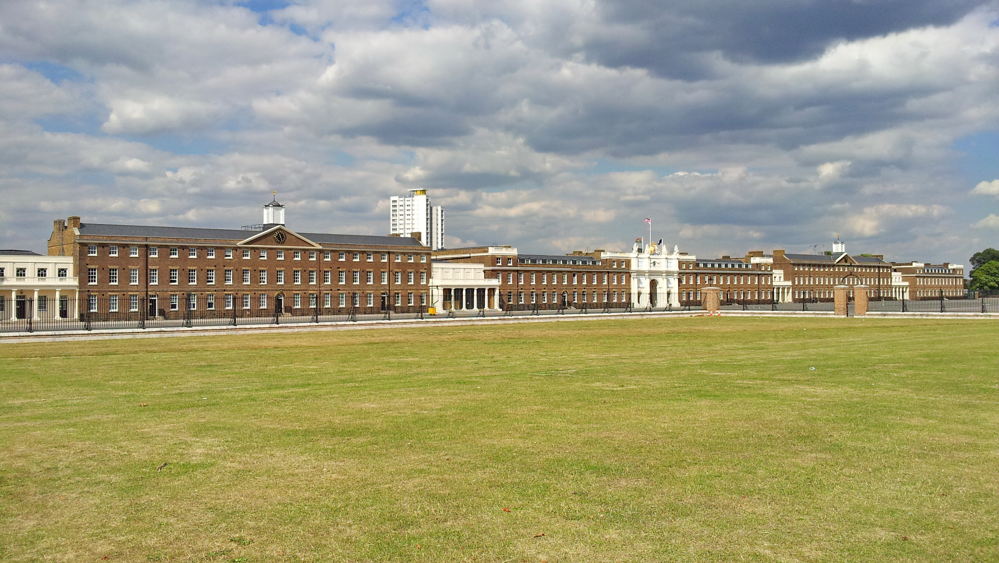 View from the south of Barrack Field and the Royal Artillery Barracks, Woolwich, Southeast London.